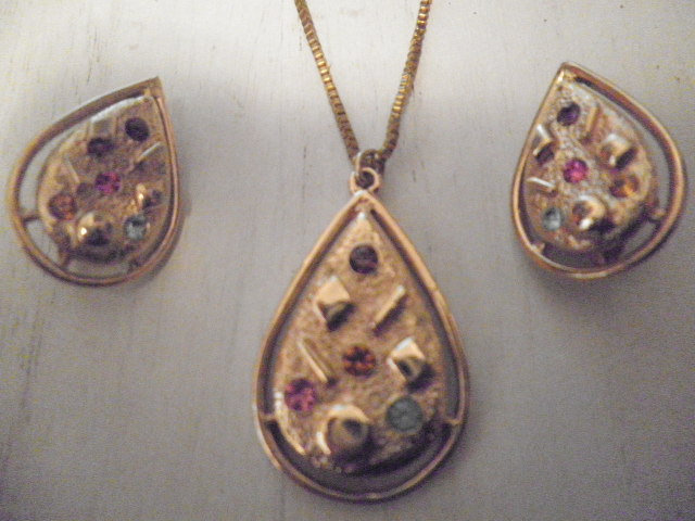 Sarah Coventry 1959 "Sultana" jewelry set. Note that the chain is not the original.